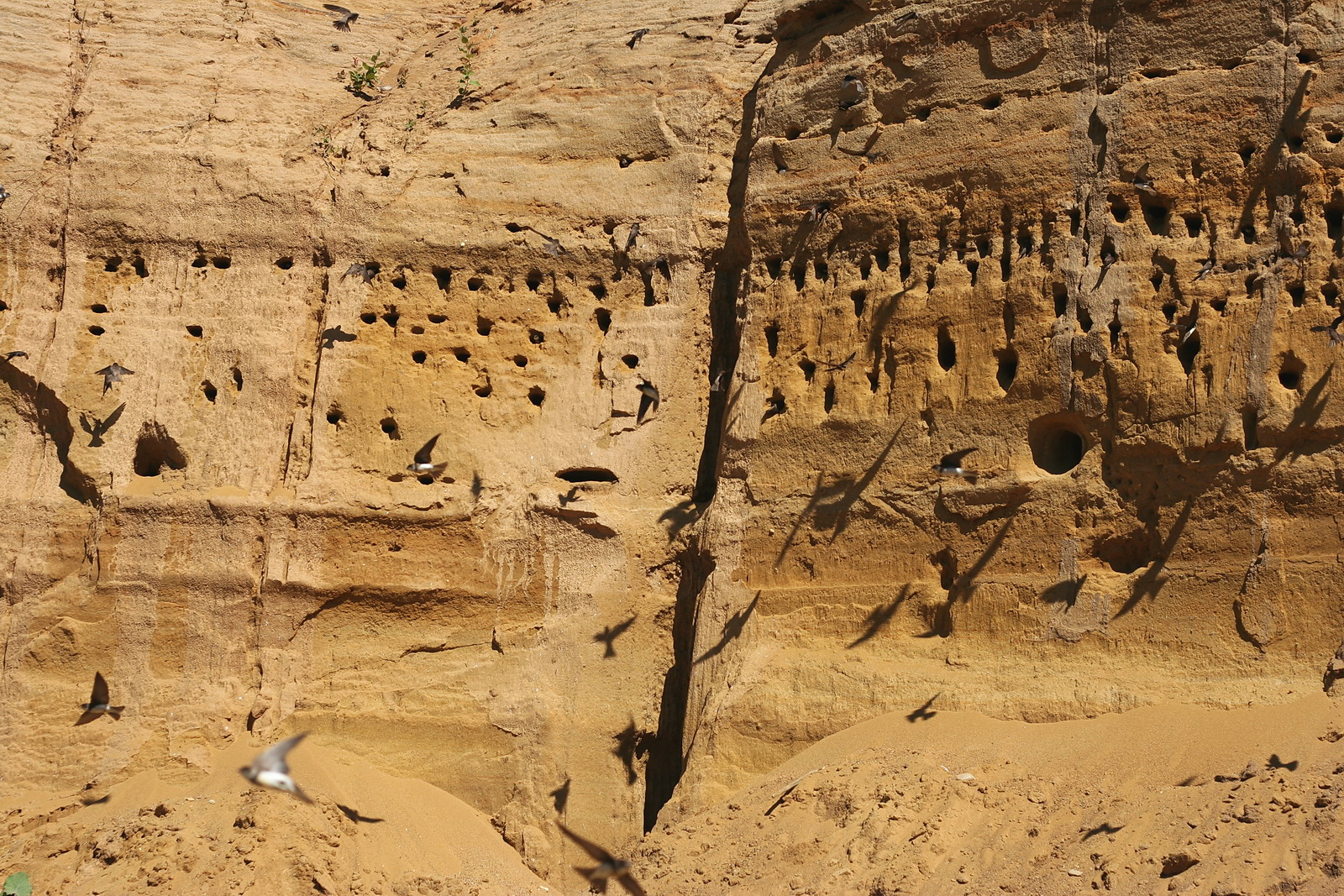 Riparia riparia nesting colony. Foletë, Kosovo.